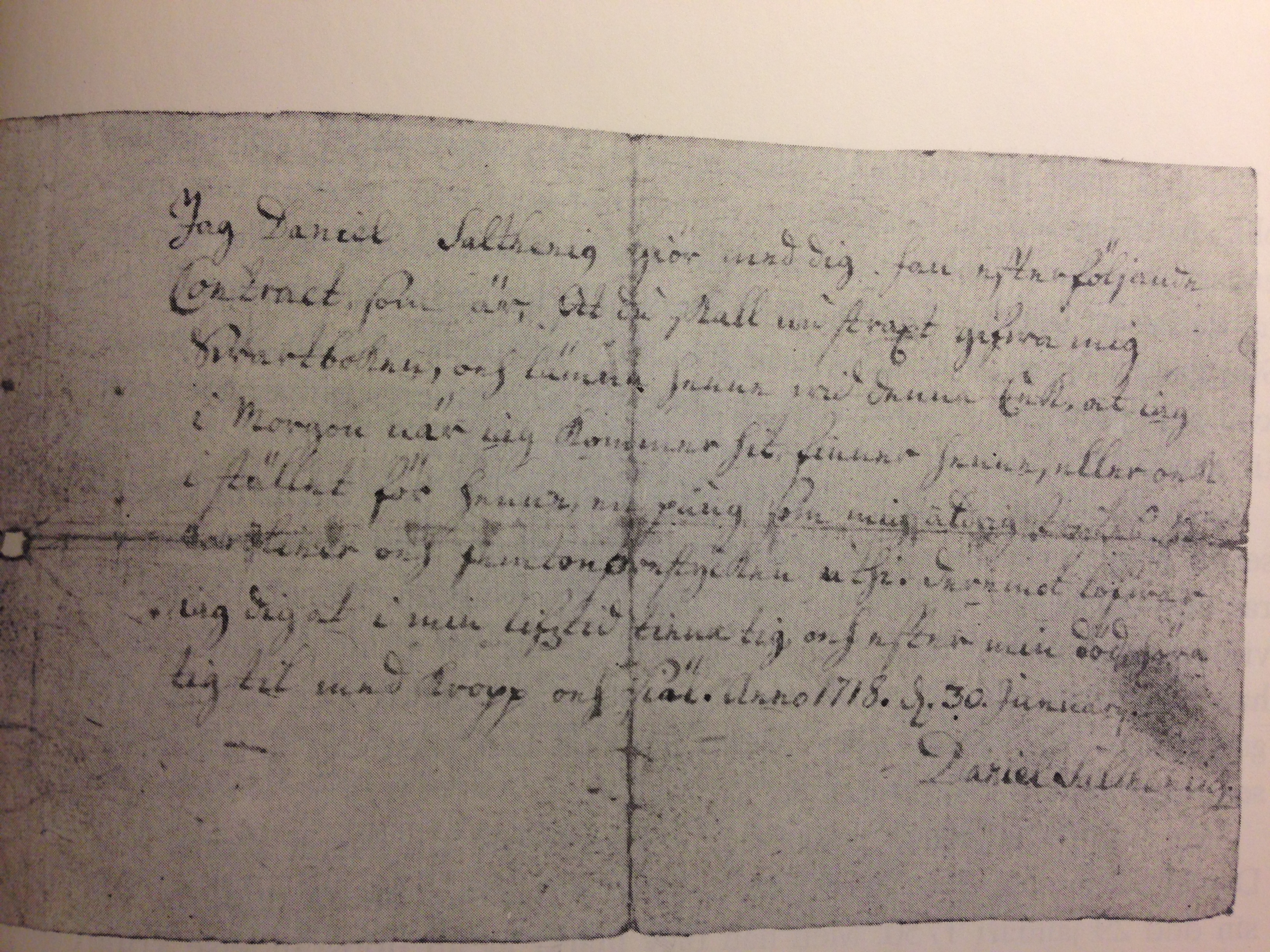 Deal with the Devil Daniel Salthenius